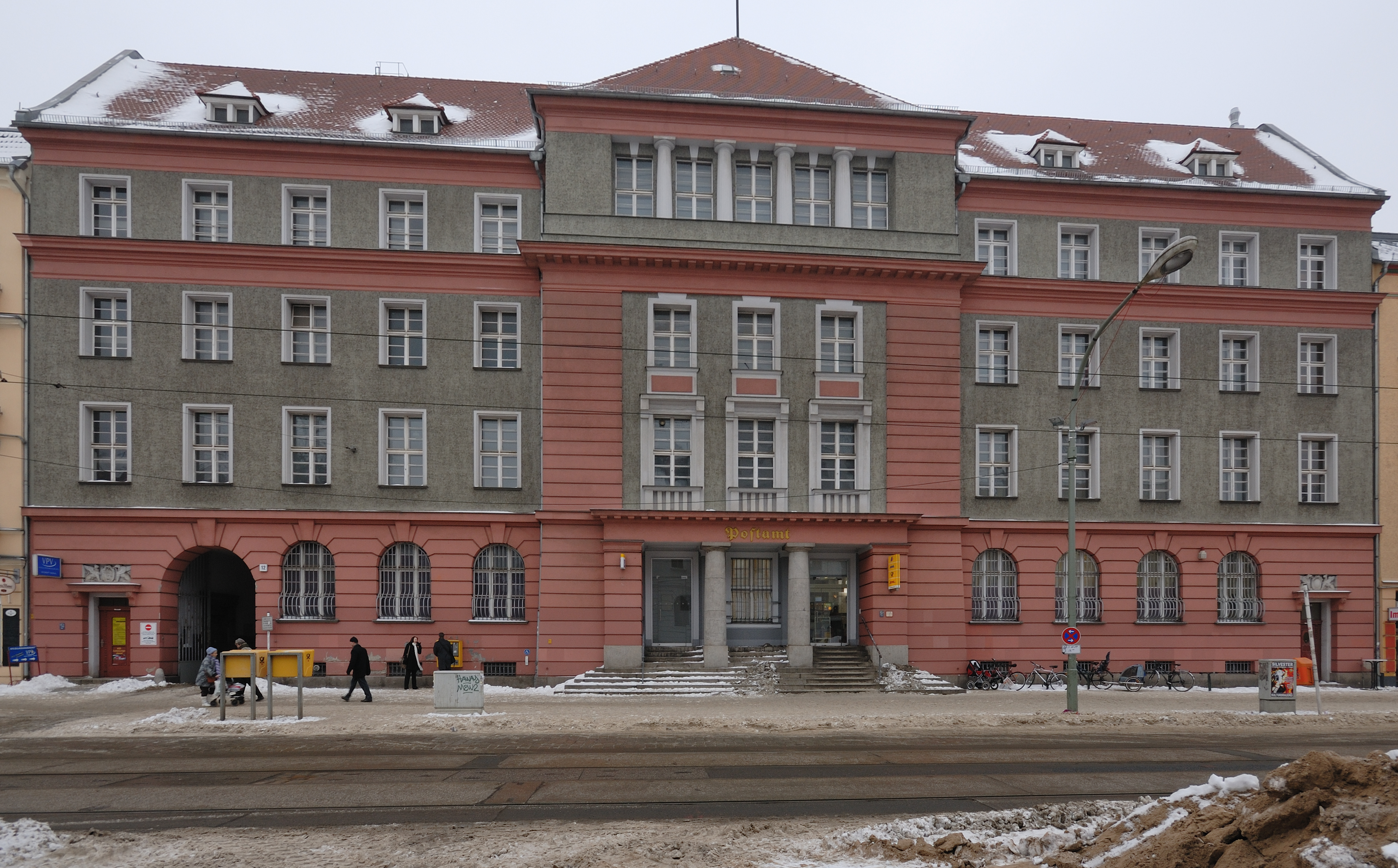 Post office Pankow I.